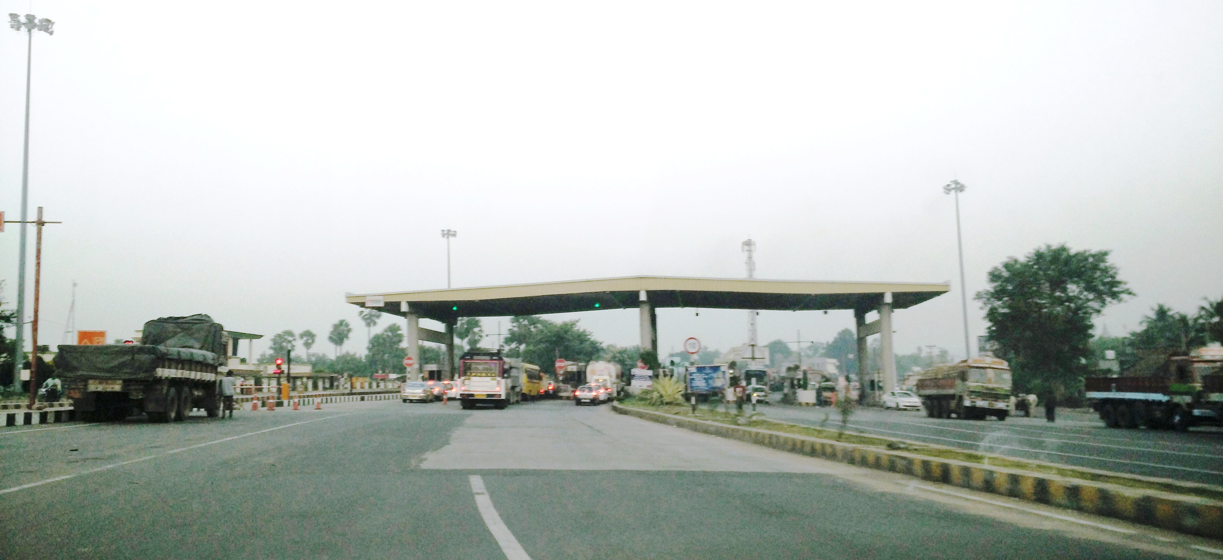 Toll Plaza at Keesara in Kanchikicherla Mandal of Krishna District